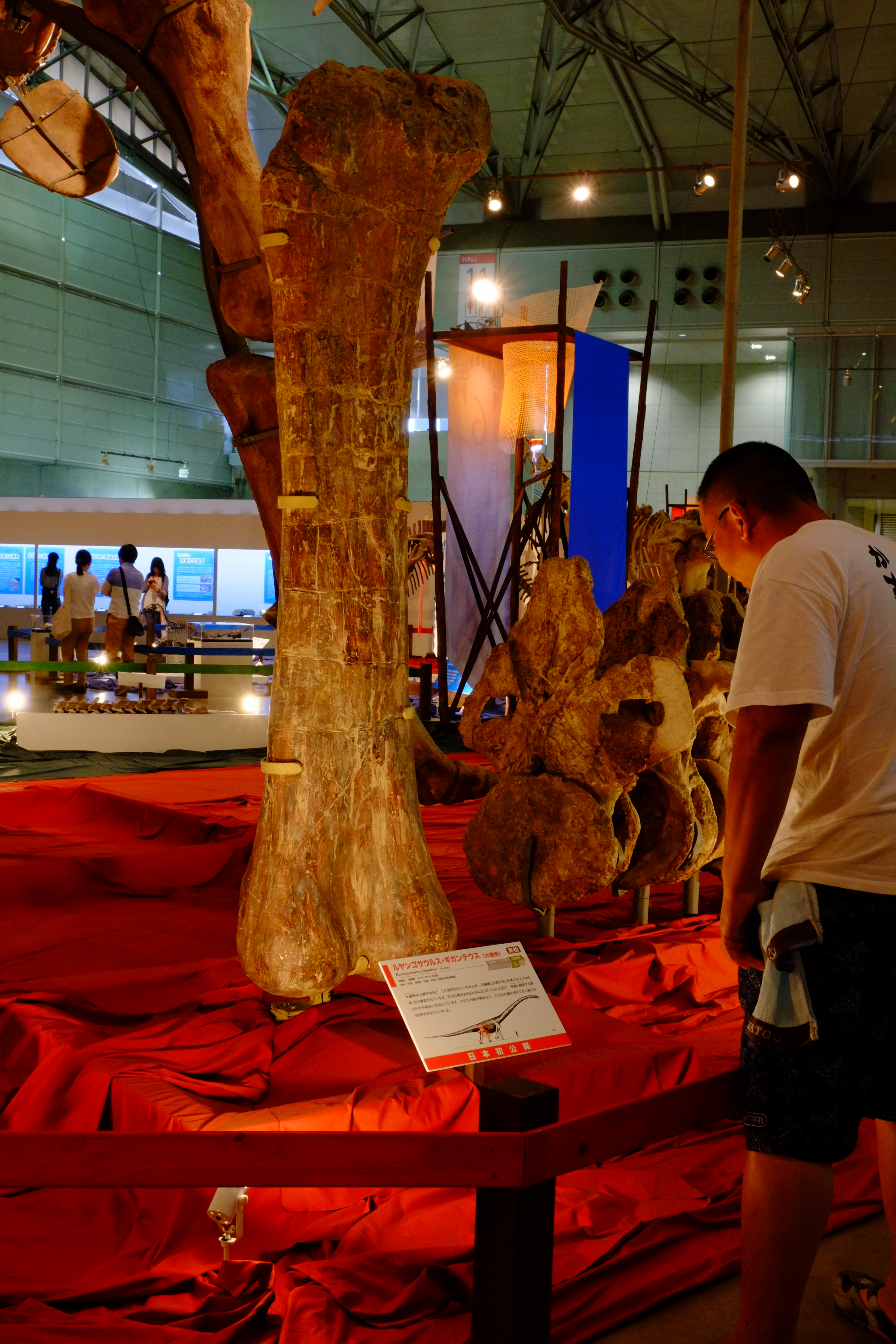 Ruyangosaurus giganteus femur